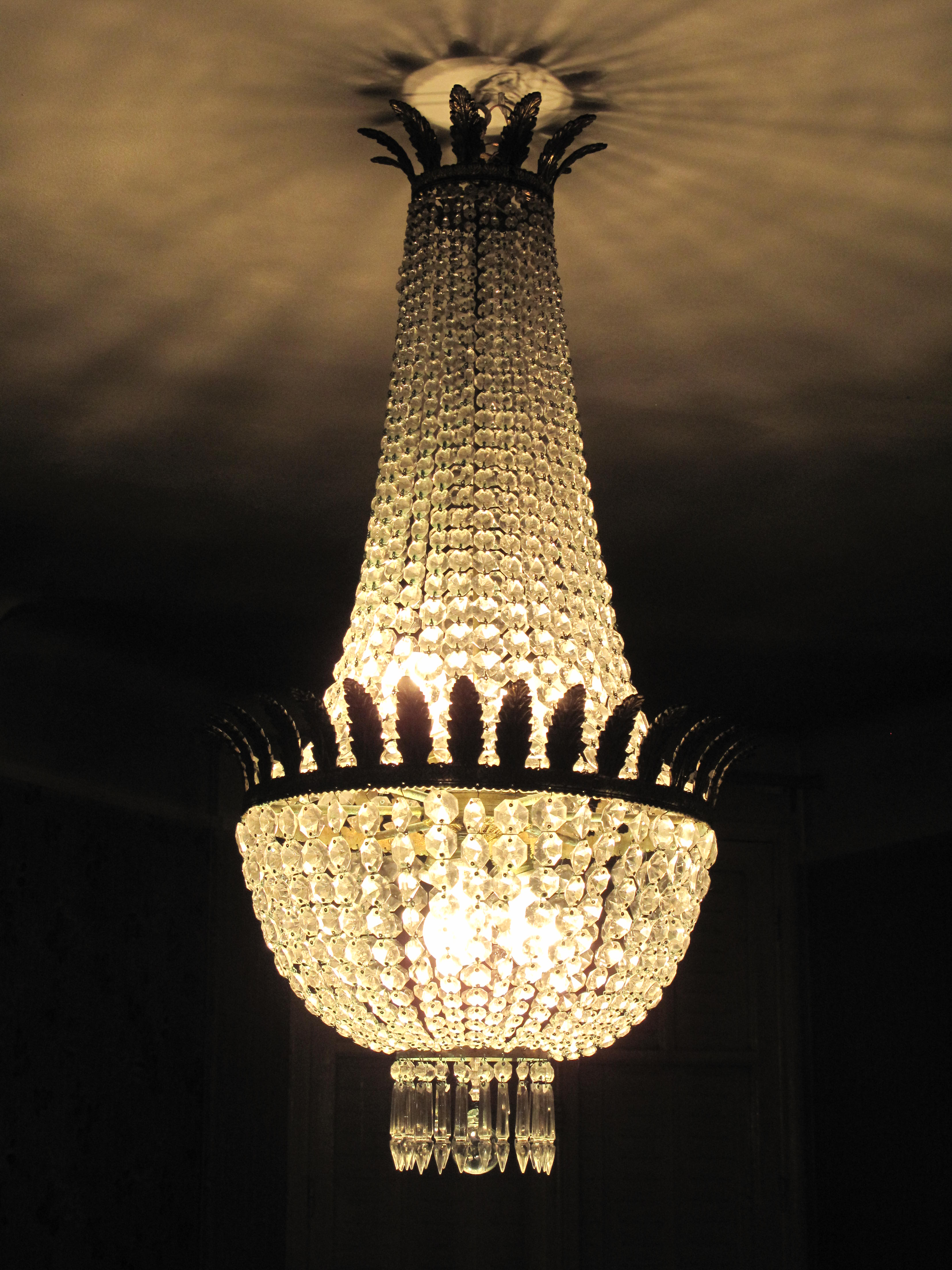 Montgolfiere chandelier (chandelier with shape of "montgolfiere", the early hot air balloon.)